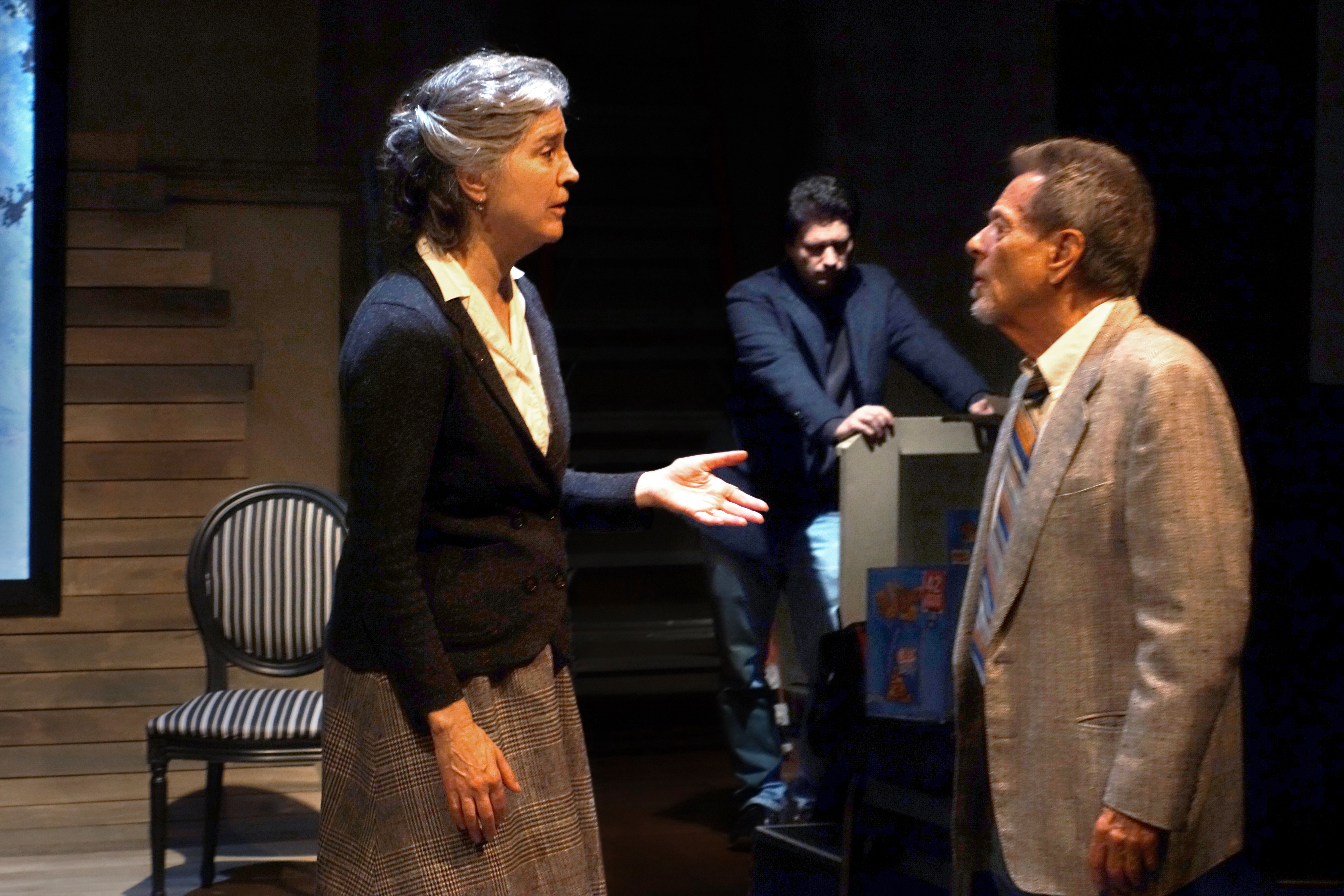 Nancy Carlin, Aaron Wilton, and Robert Ernst in Indra's Net Theater's production of Michael Frayn's Copenhagen at Berkeley City Club, Dec. 22, 2019